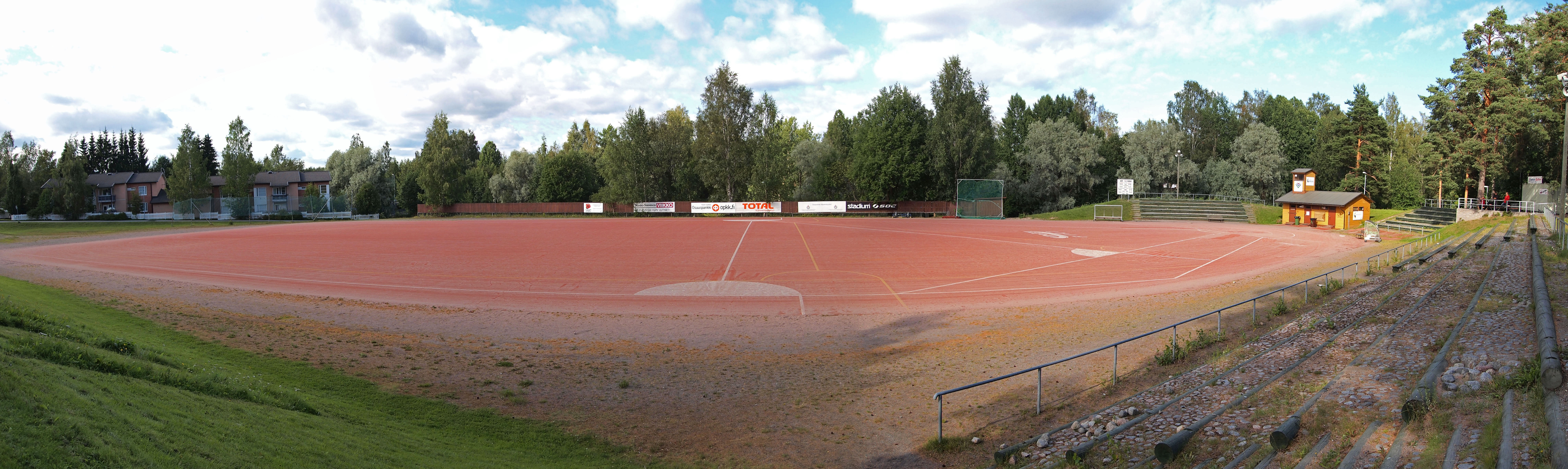 Koskenharju pesäpallo field in Jyväskylä.